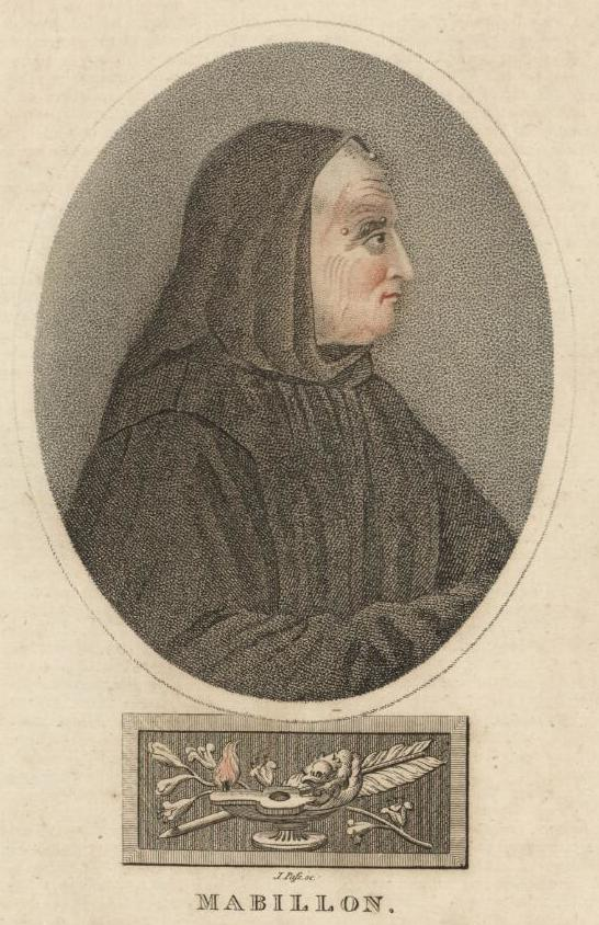 A portrait from the Welsh Portrait Collection at the National Library of Wales. Depicted person: Jean Mabillon – French Benedictine monk, medievist, paleographer, diplomatics and theologian